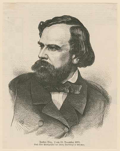 The german military painter Feodor Dietz (1813-1870)